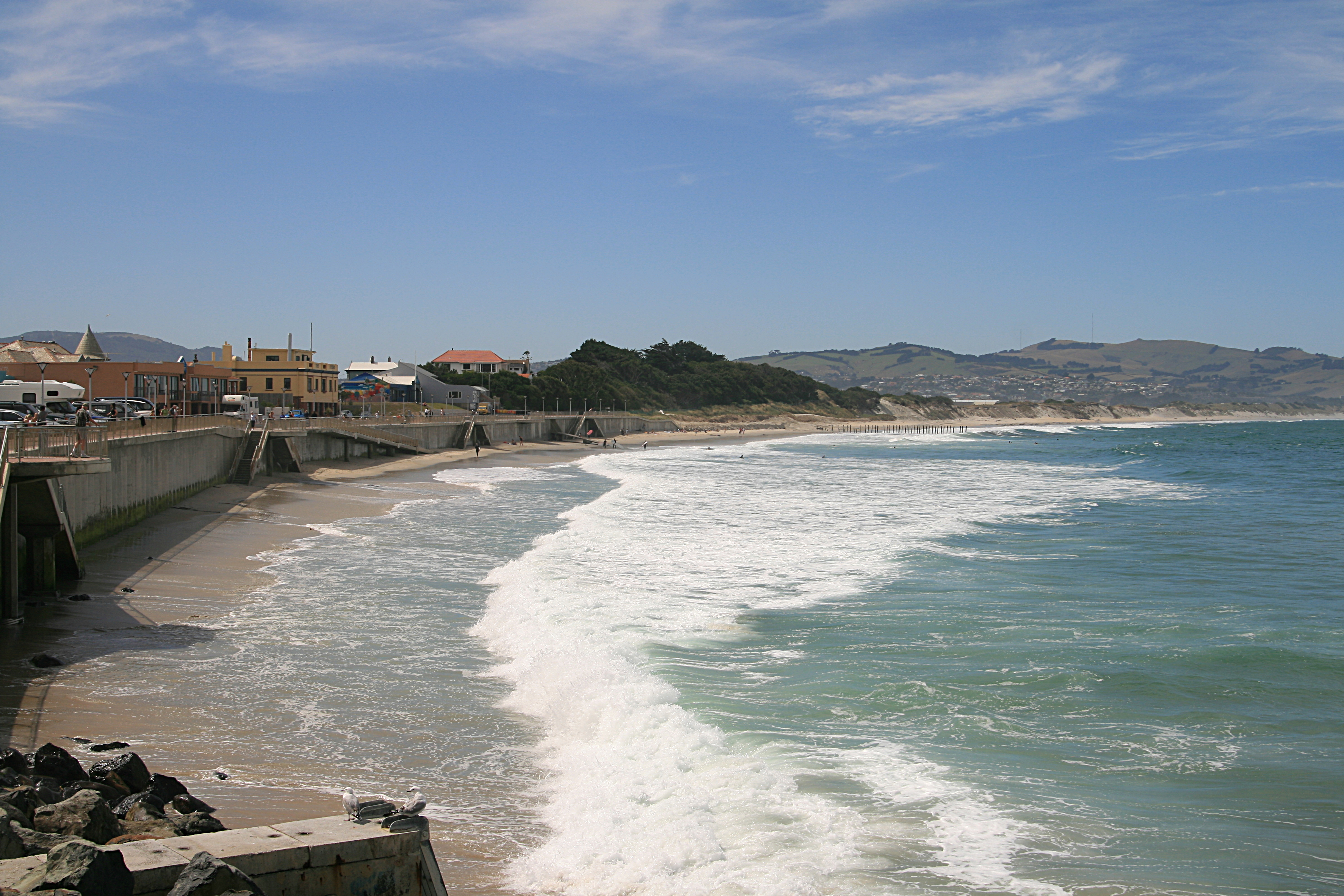 St Clair Beach, Dunedin, Otago, New Zealand